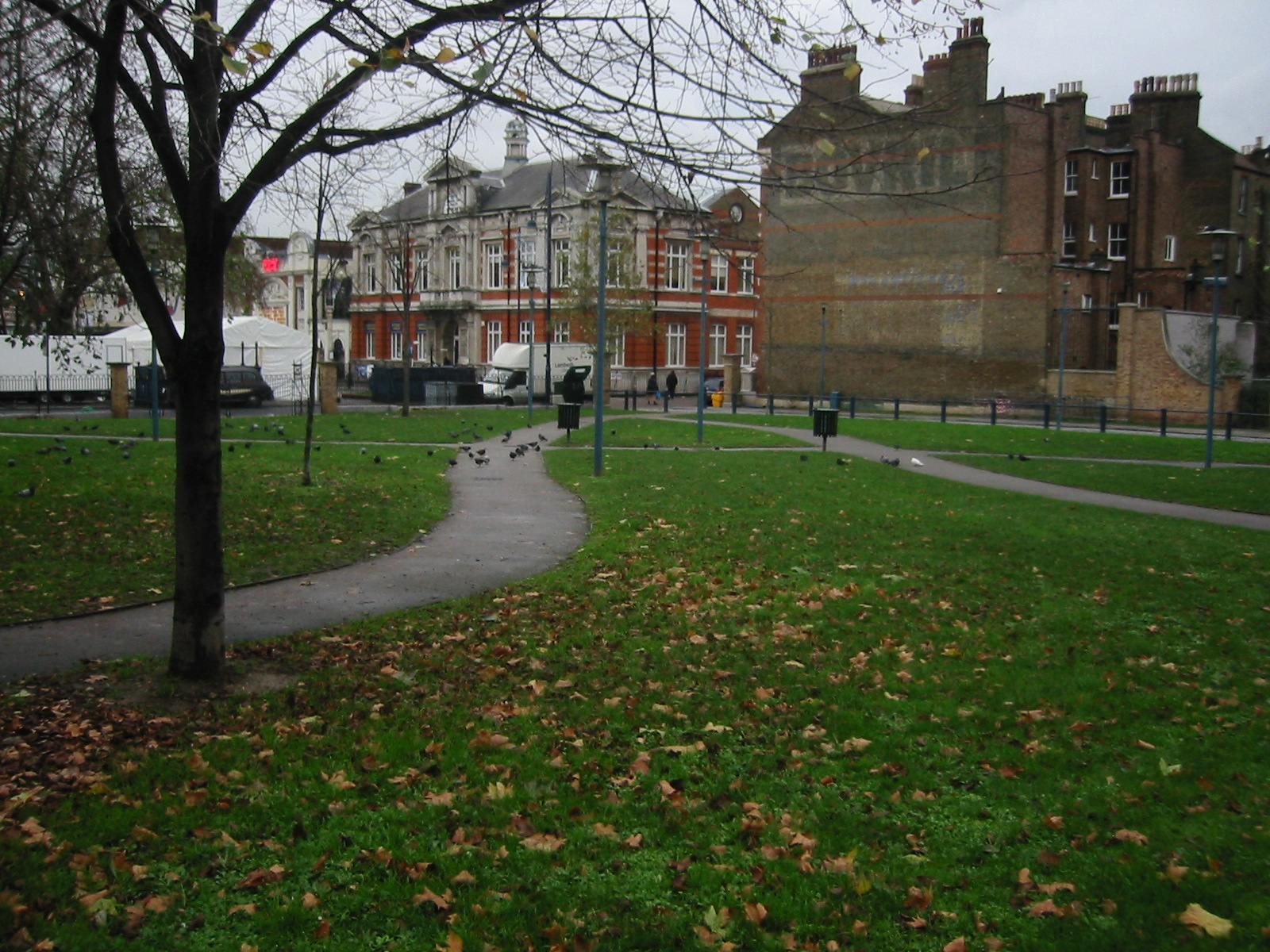 Photo taken by me.